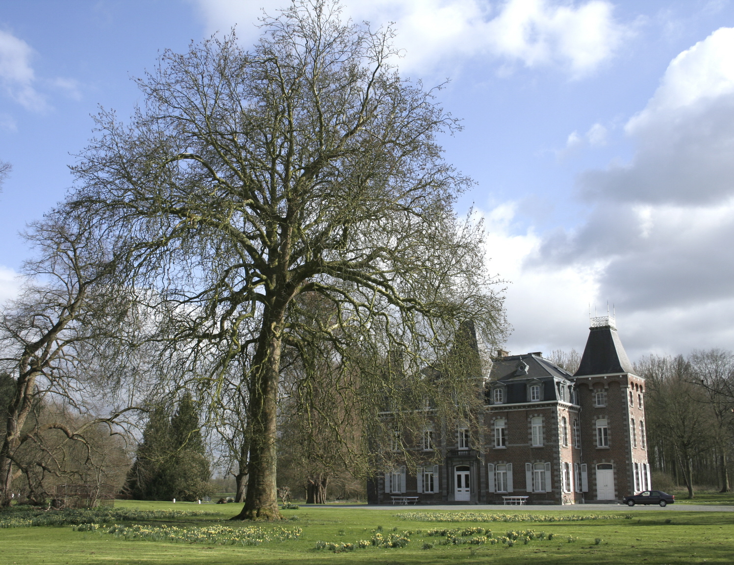 Harveng (Belgium), the « de Marchienne » castle and his remarkable park (XVIII/XIXth centuries).